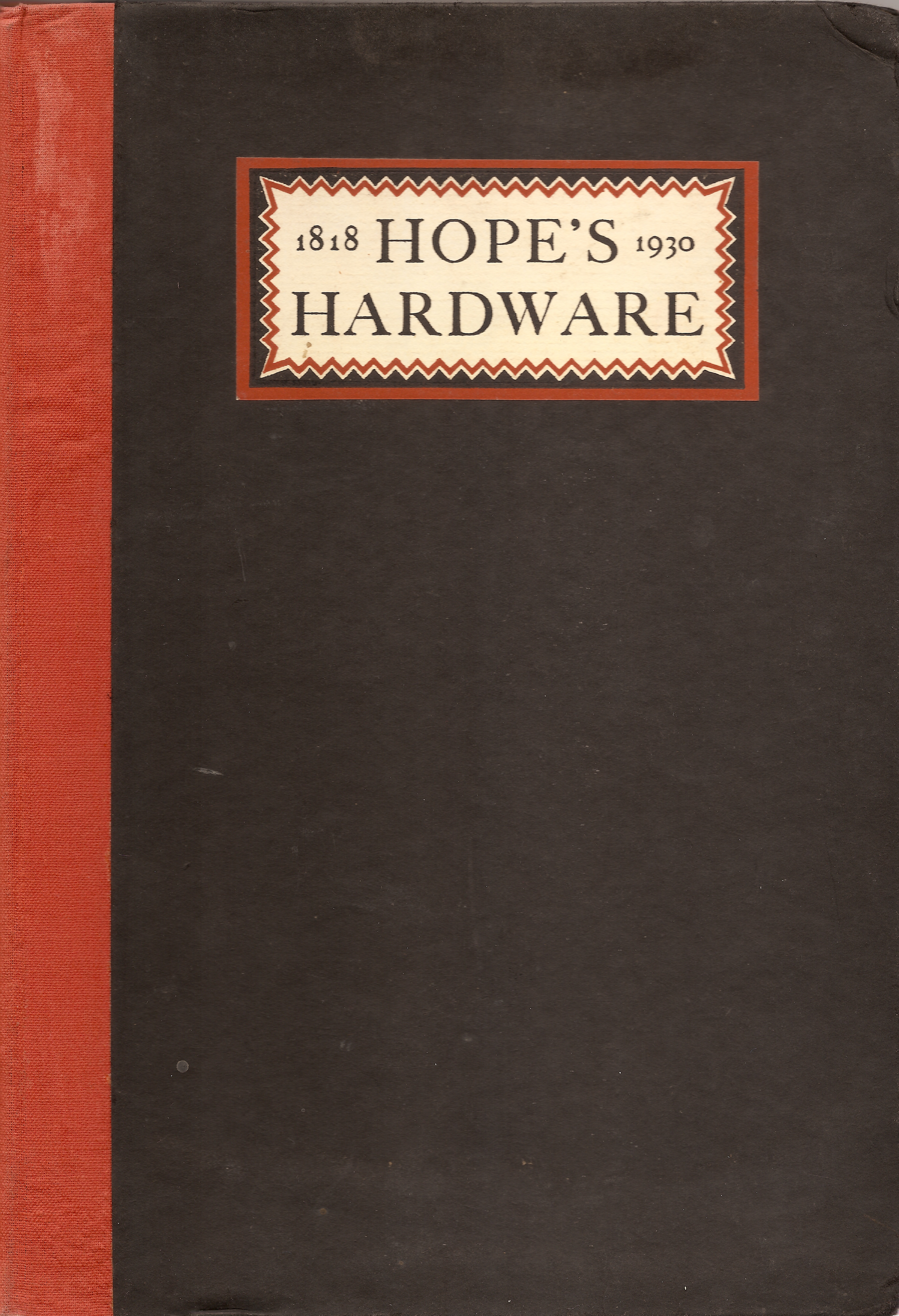 Front page of catalogue issued by Henry Hope & Sons Ltd of Smethwick, Birmingham, UK.